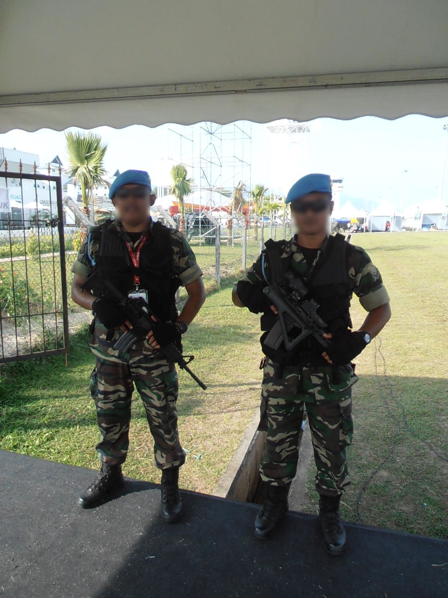 The Field Protection Team airmens of PASKAU arms with Colt M4A1 Carbine and SIG SG 553SB assault rifle guarding the exit door during the Langkawi International Maritime and Aerospace Exhibition 2013 or LIMA 2013 at Langkawi Airport. Taken by me at Langkawi International Airport, Langkawi, Kedah, Malaysia.